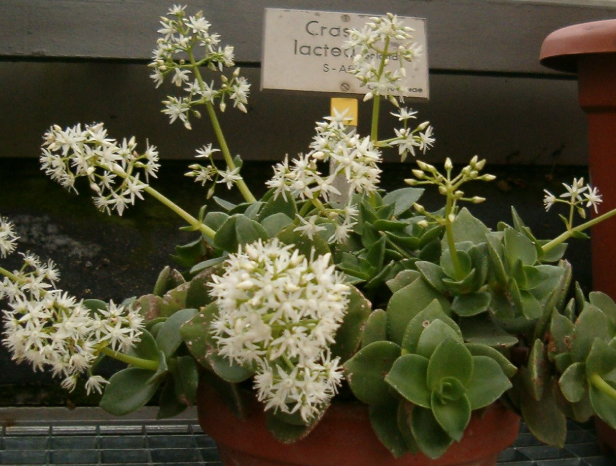 Location: Botanical Gardens Berlin Dahlem Xerophyt